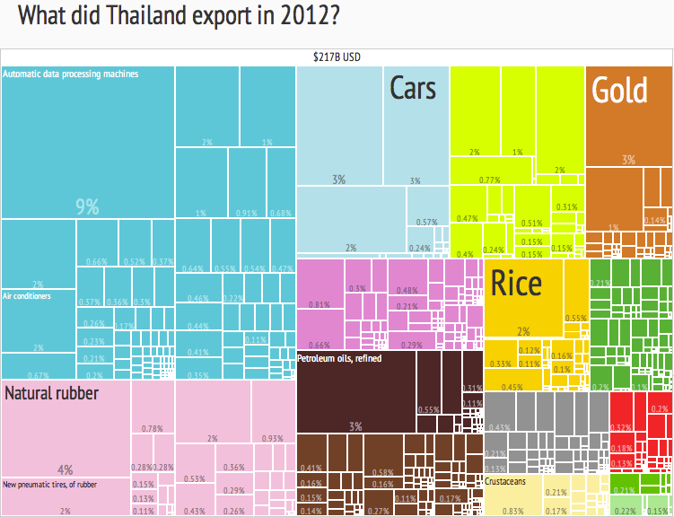 2012 Thailand Products Export Treemap